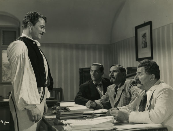 Scene from the Hungarian movie titled Uz Bence (released in 1938)